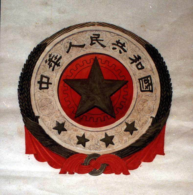 Draft of the National Emblem of People's Republic of China proposed by Lin Huiyin.